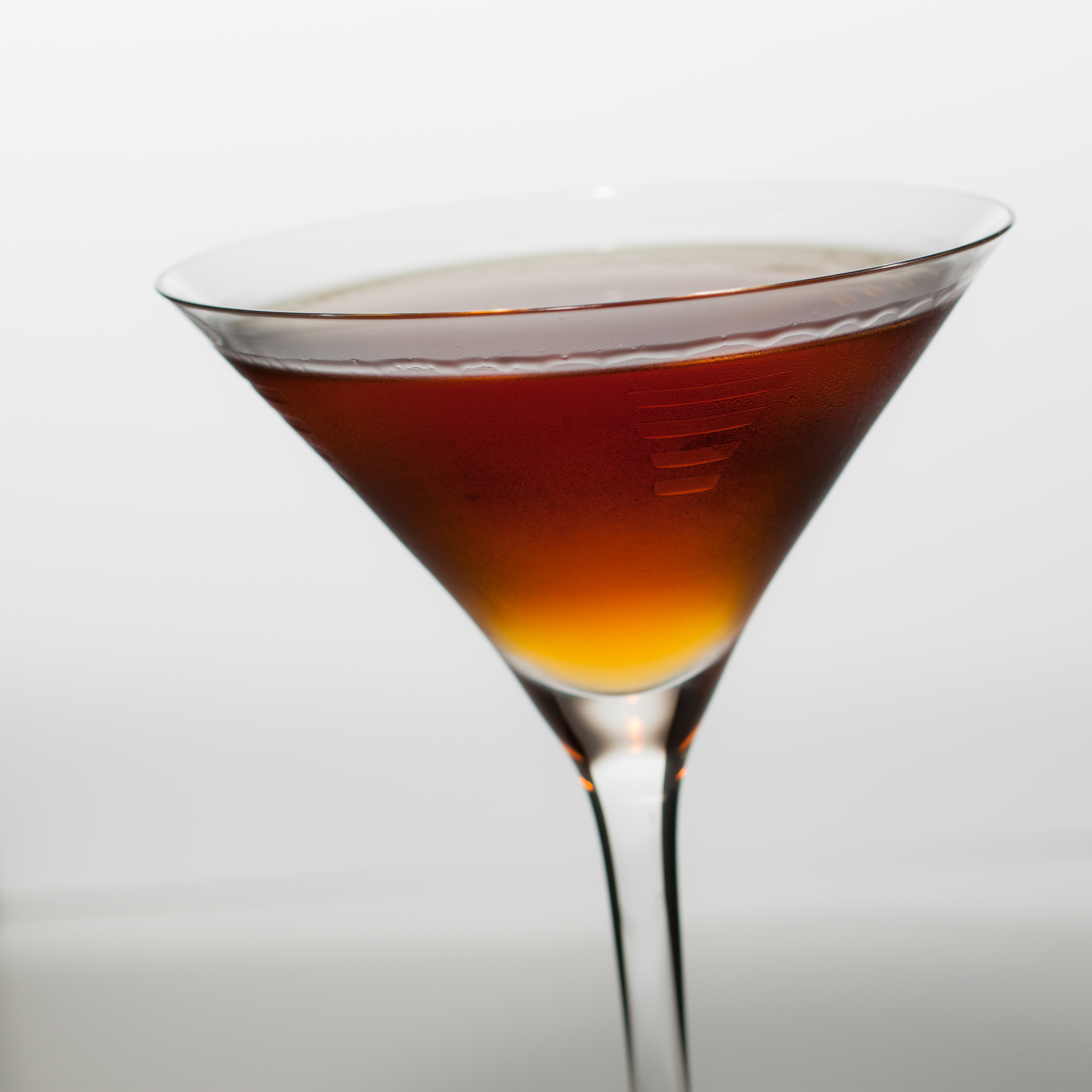 Day 283. I finally got some black and white foam core, so I decided to try some bright field photography tonight for Tipsy Tuesday. I perhaps should have wiped the condensation off, and I'm not quite sure how to get better definition on the back side of the rim, but other than that I'm pretty happy with this attempt. This is a Hanky Panky, which is one of my favorite fall gin cocktails: 2 oz gin (Hendricks) 1 oz sweet vermouth (Dolin) 1/4 oz Fernet Branca orange twist Strobist: 430 EX (with improvised snoot) aimed against white foam core behind glass; black foam core on either side for more definition. Taken Oct 9, 2012 in Somerville, Massachusetts, United States ¹⁄₁₆₀ sec at f/5.0, ISO100. Lens: EF50mm f/1.4 USM @ 50 mm